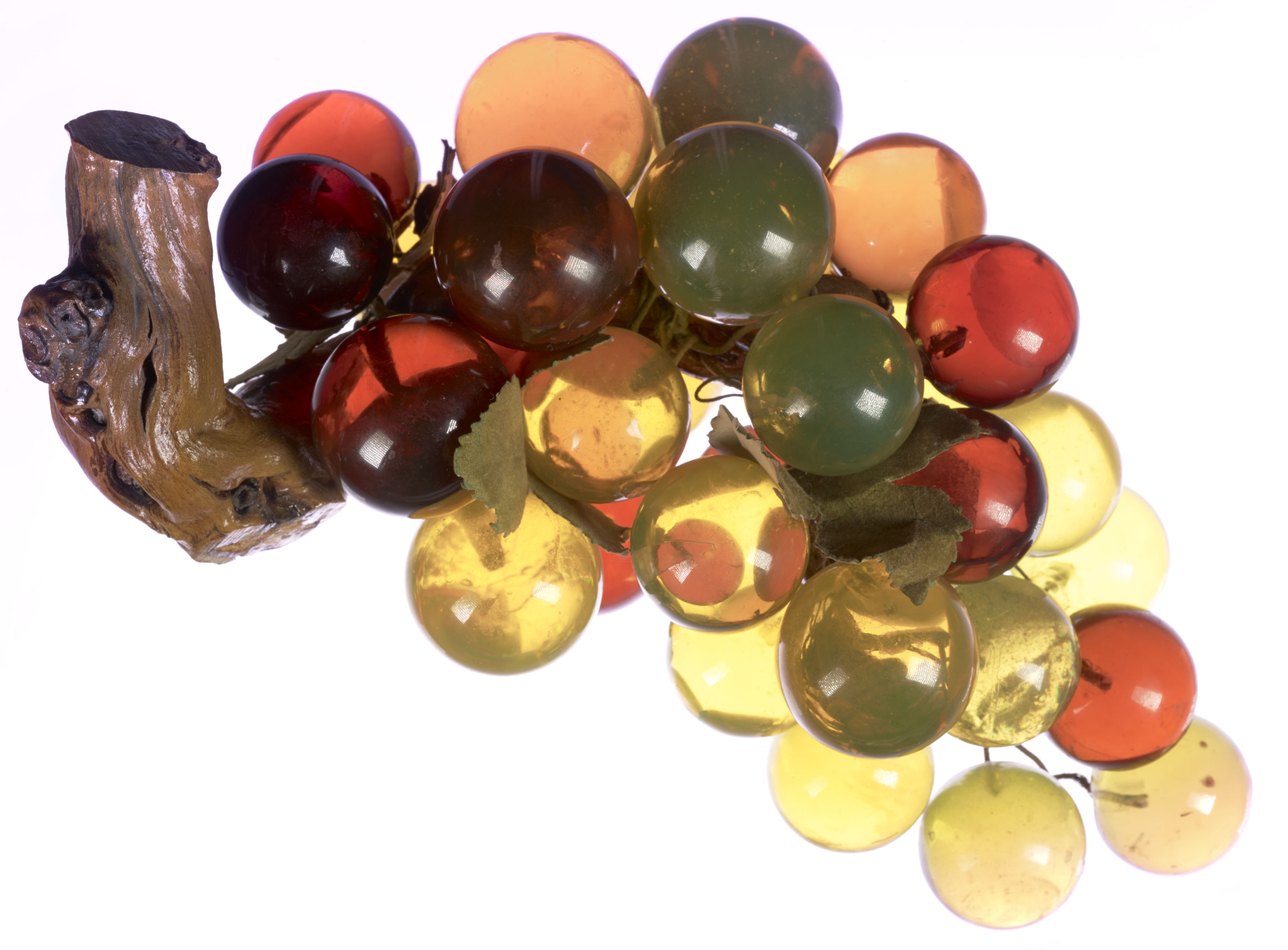 Resin grapes made around 1965. A popular craft in LDS Relief Societies in the Mormon Intermountain area in the 1960s.